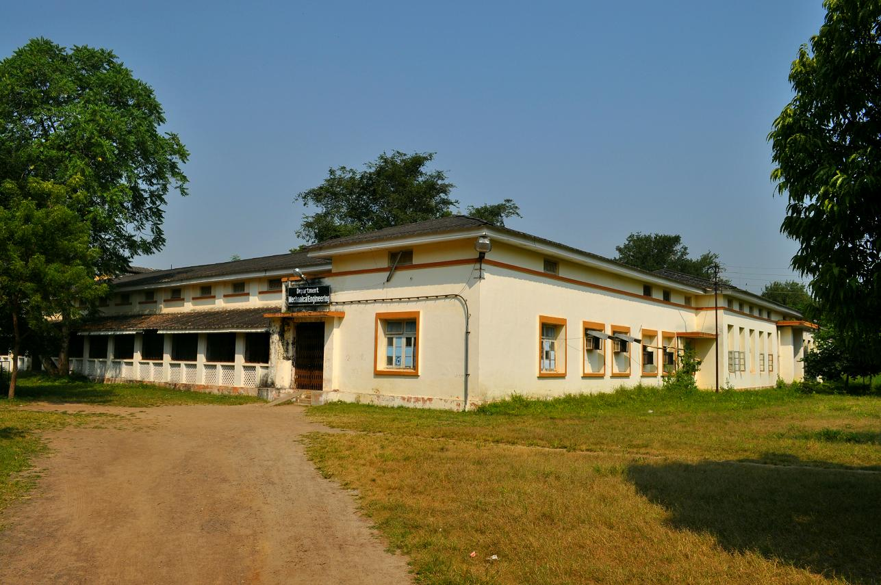 Jabalpur Engineering College (JEC)'s Mechanical Engineering Department.